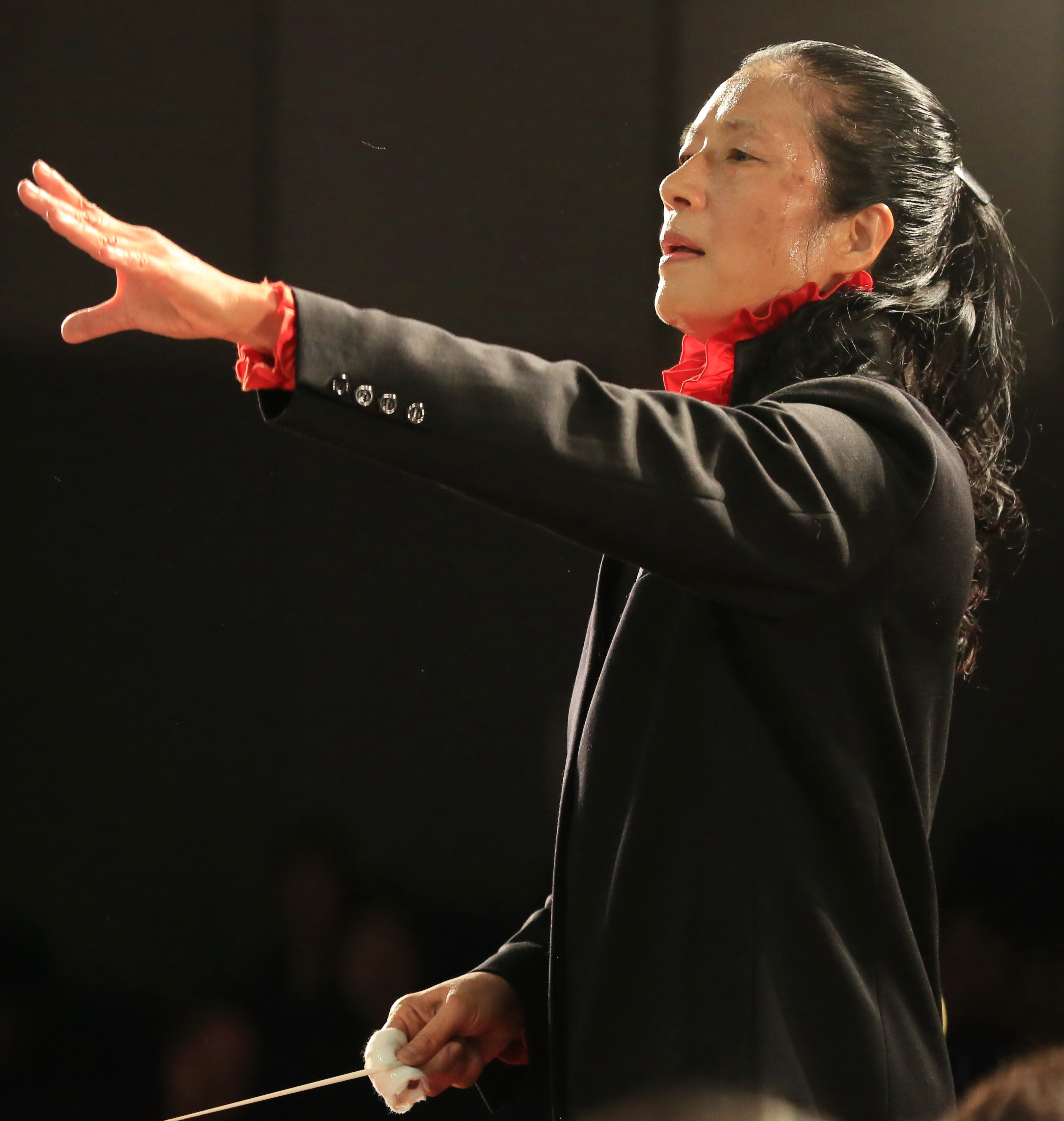 Conductor Pei-Yu Chang (chin. 张培豫)